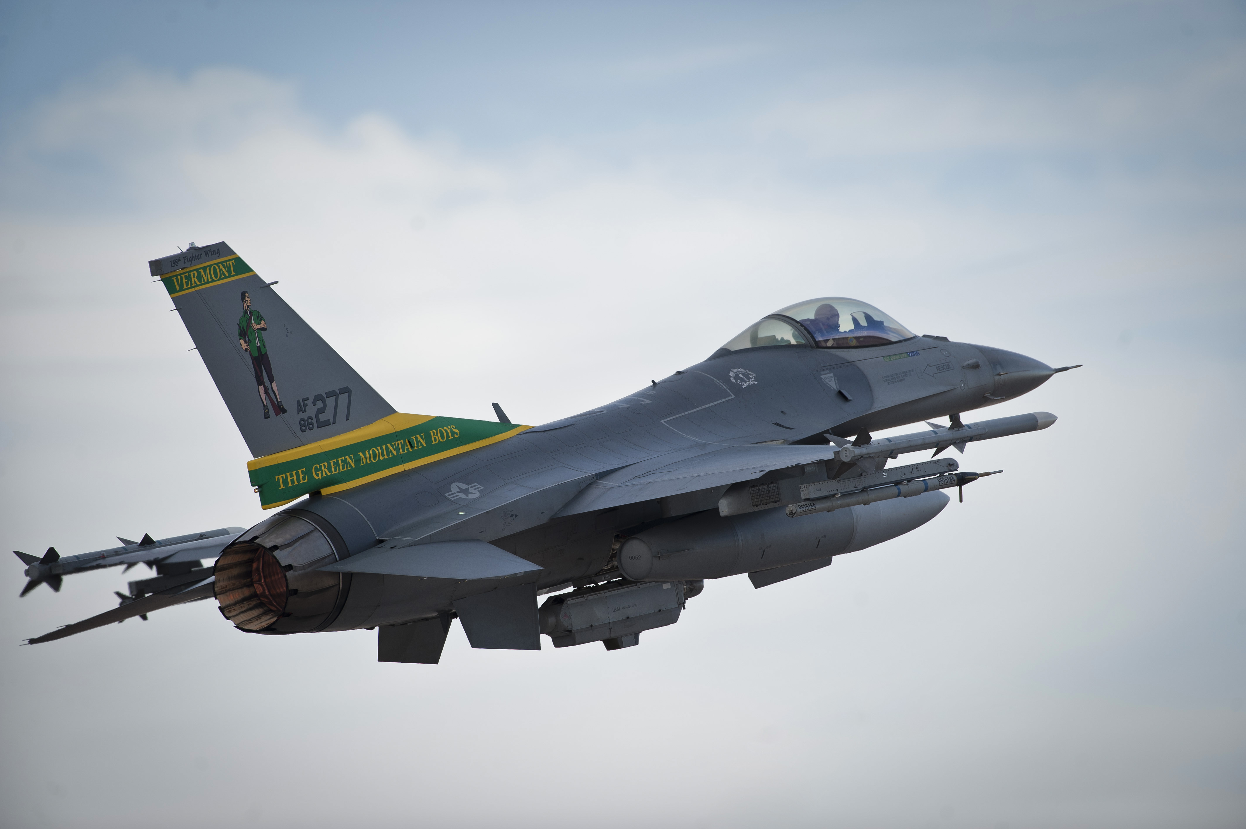 An F-16 Fighting Falcon assigned to the 134th Fighter Squadron, Burlington Air National Guard Base, Burlington, Vt., launches during Red Flag 15-1 at Nellis Air Force Base, Nev., Jan. 26, 2015. Red Flag provides an opportunity for Guardsmen aircrew and maintainers to enhance their tactical operational skills alongside units from around the Air Force. (U.S. Air Force photo by Staff Sgt. Siuta B. Ika)